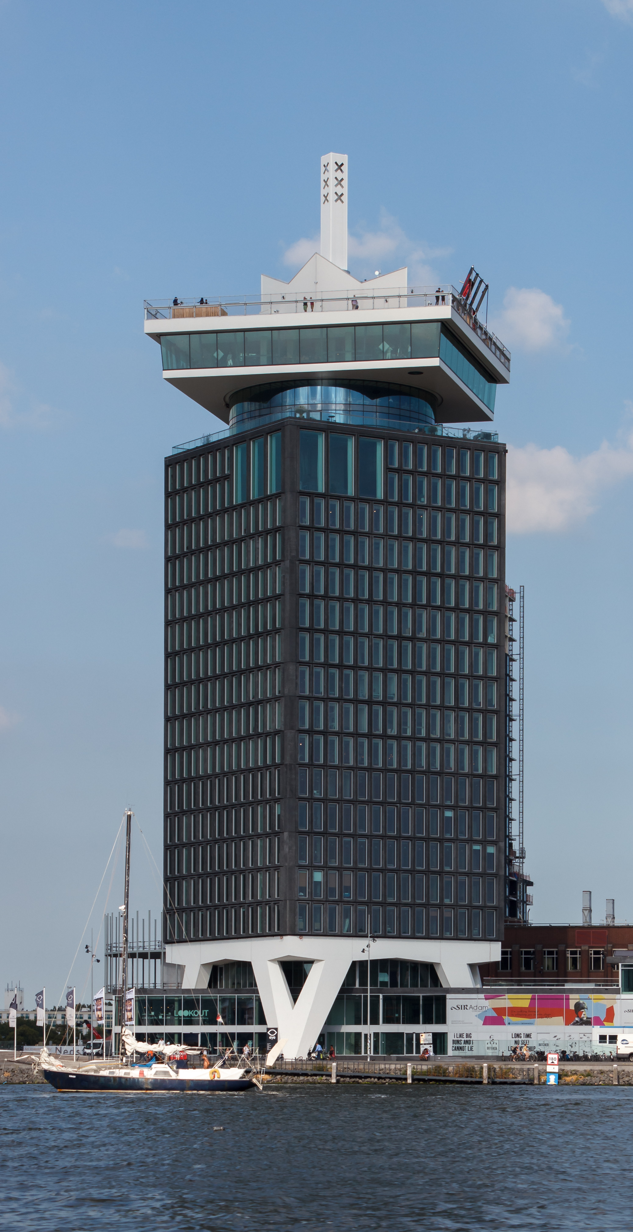 Shell Tower (A'DAM) in Amsterdam-Noord as seen from a tour boat